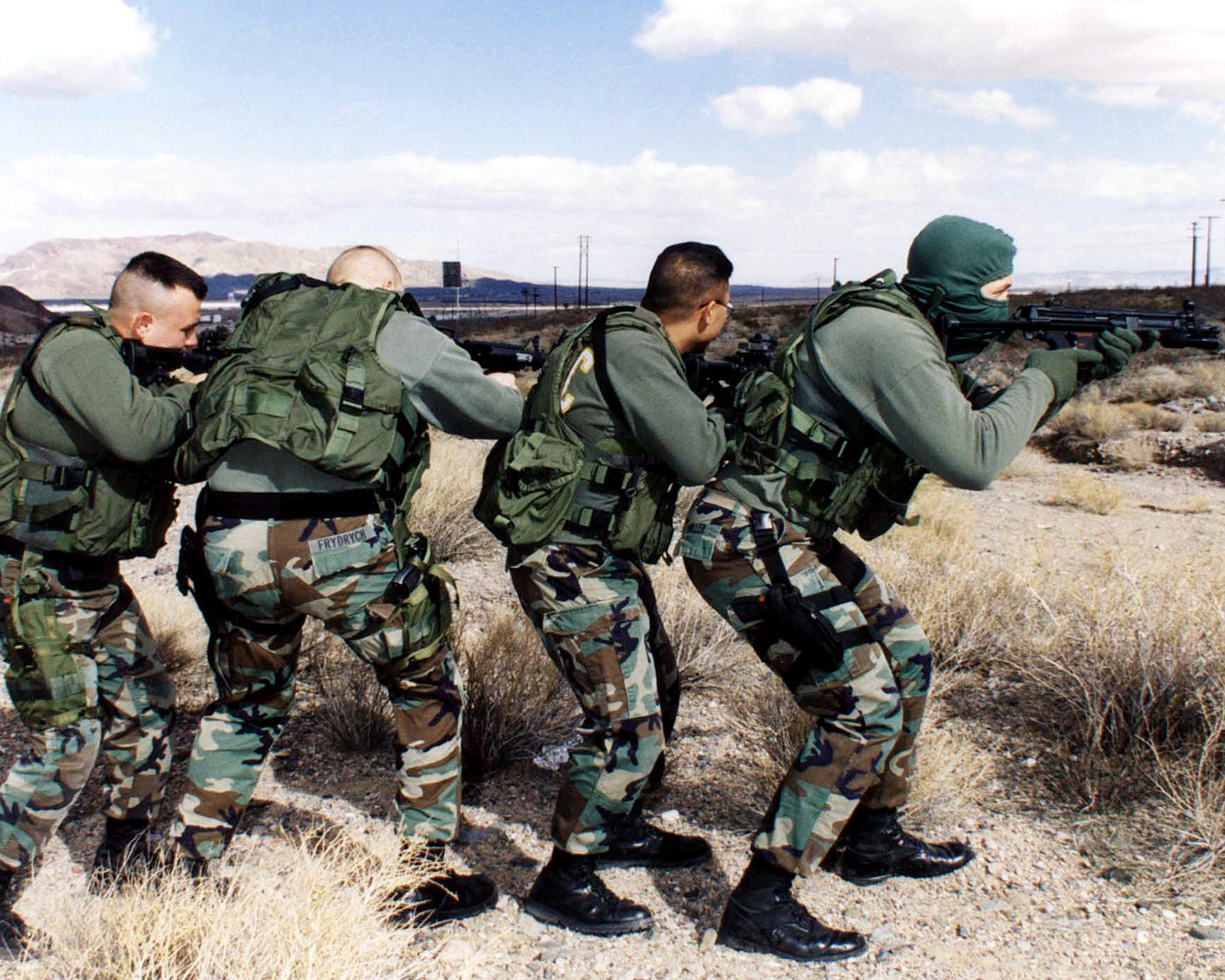 Members of the Provost Marshal's Office Special Response Team at Marine Corps Logistics Base (MCLB), Barstow, California, train at MCLB's rifle range. The Marines are firing German made Heckler and Koch 5.56 mm HK53 Short Assault Rifles. Location: USMC LOGISTICS BASE, BARSTOW, CALIFORNIA (CA) UNITED STATES OF AMERICA (USA)